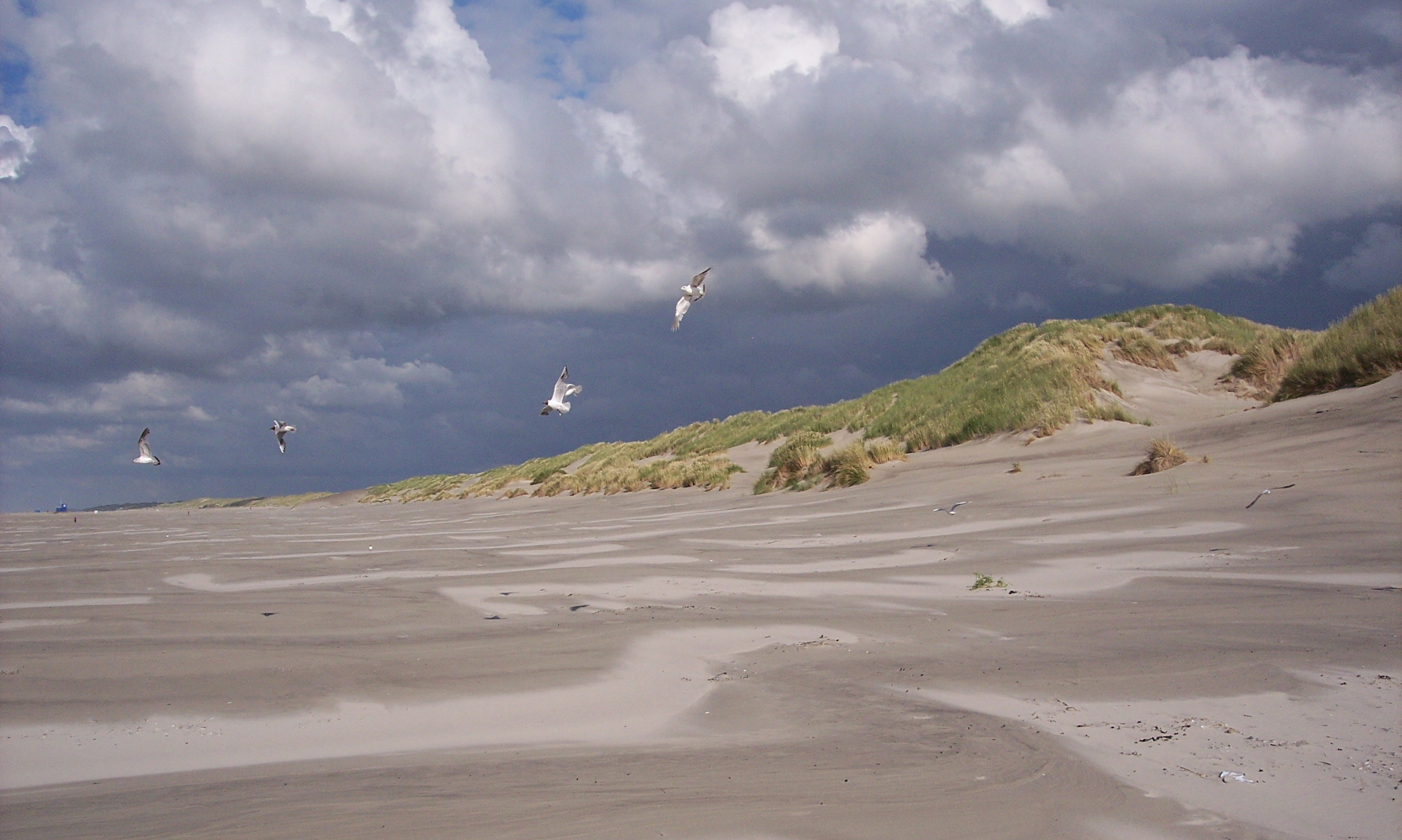 Dunes of Terschelling, Netherlands